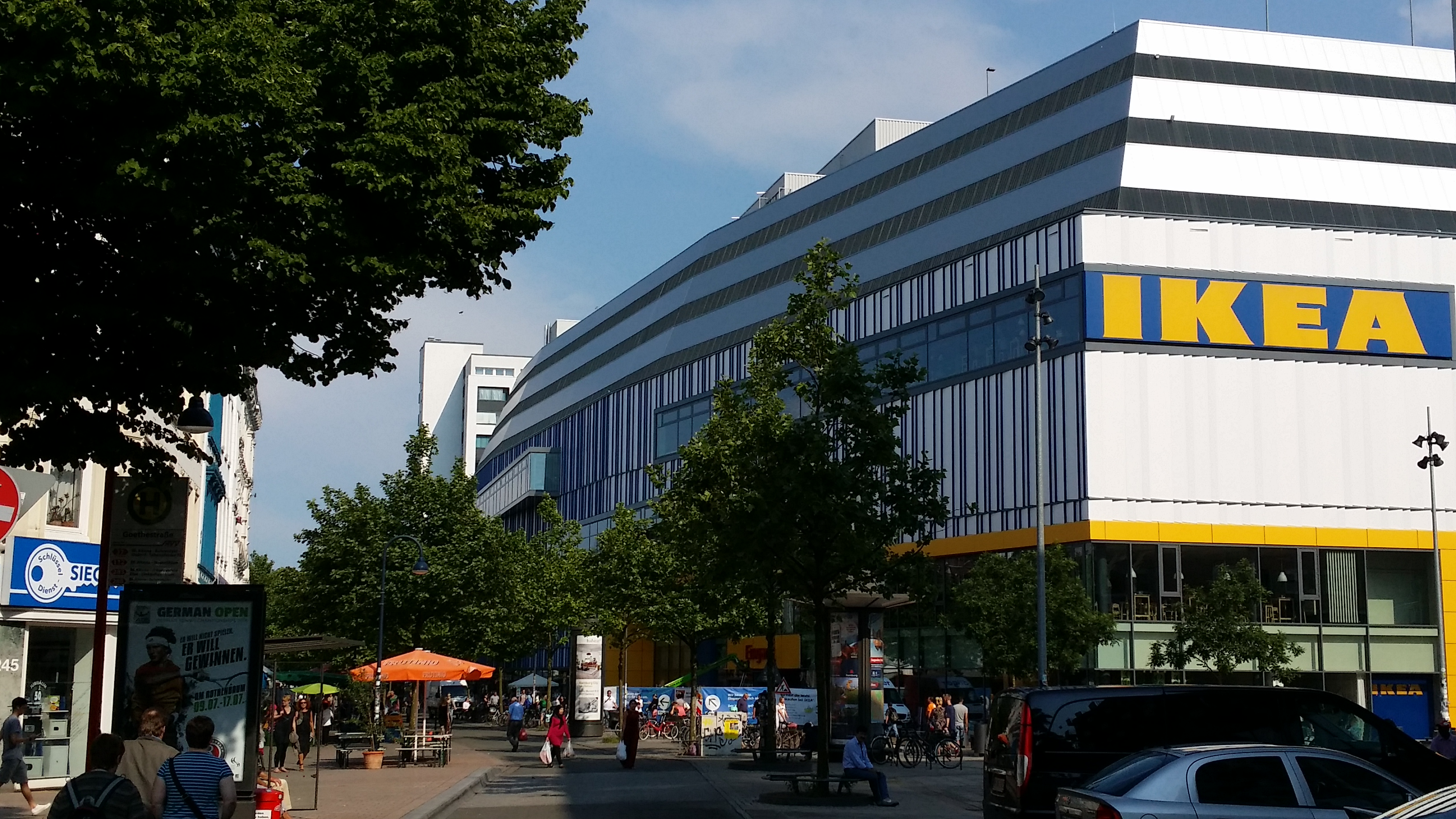 Ikea Altona, Hamburg, Germany Home-center